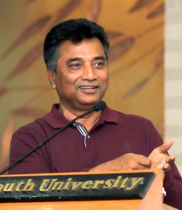 DNCC mayor Annisul huq at North South University, Dhaka